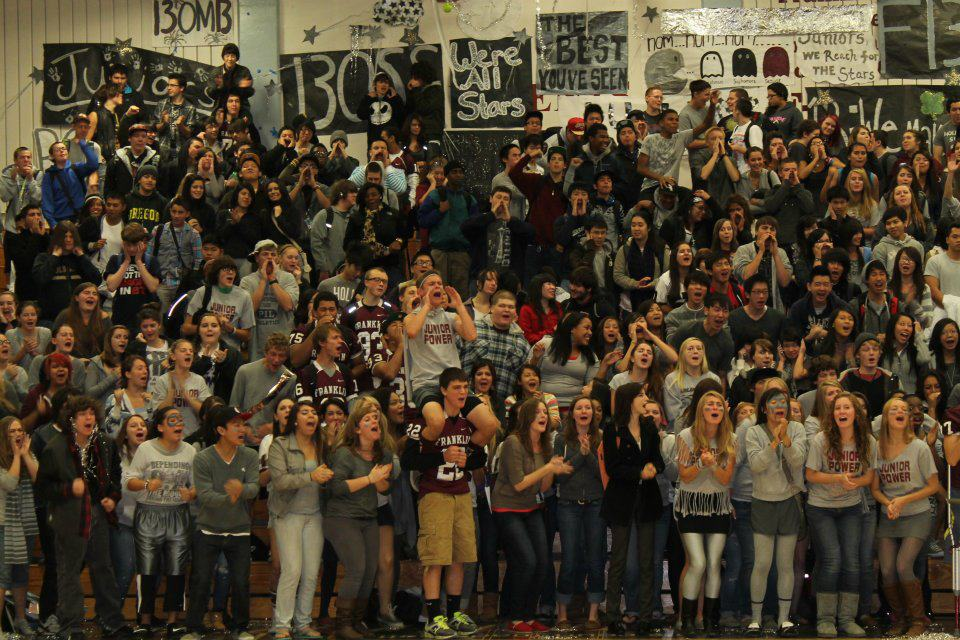 A group of students cheering and clapping at their high school pep assembly.